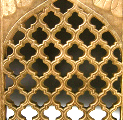 Banshi pahadpur Stone Caving. demo image, use for indidan temple. Nammed JALI